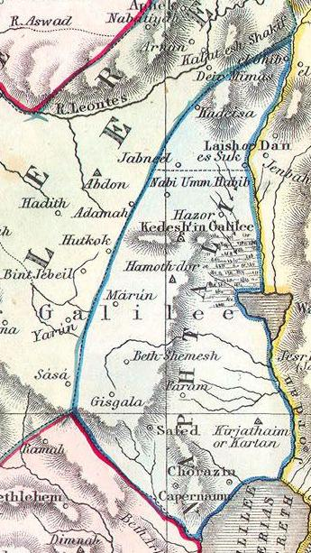 This beautiful hand colored map is a steel plate engraving of Israel / Palestine or the Holy Land. Depicts the region as it would have been during the period of the Twelve Tribes of Israel. There are numerous notations referencing well, caravan routes and Biblical locations. Dated “Liverpool, Published by George Philip and Sons 1852”.